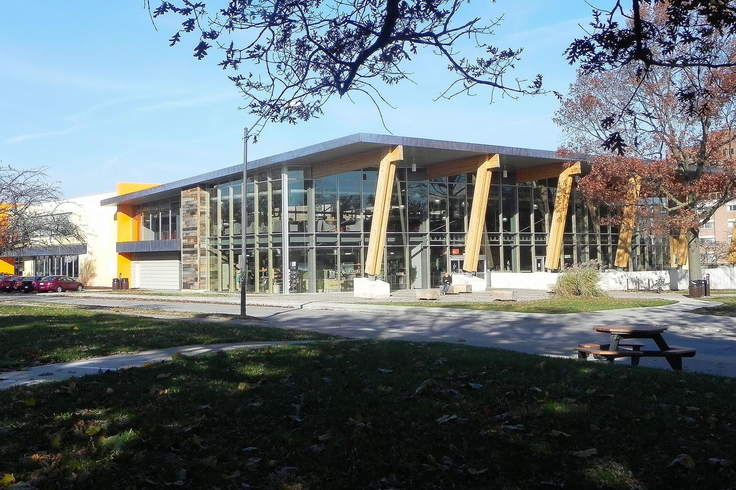 The Oaks Dining Hall. Taken shortly after opening in Fall of 2011